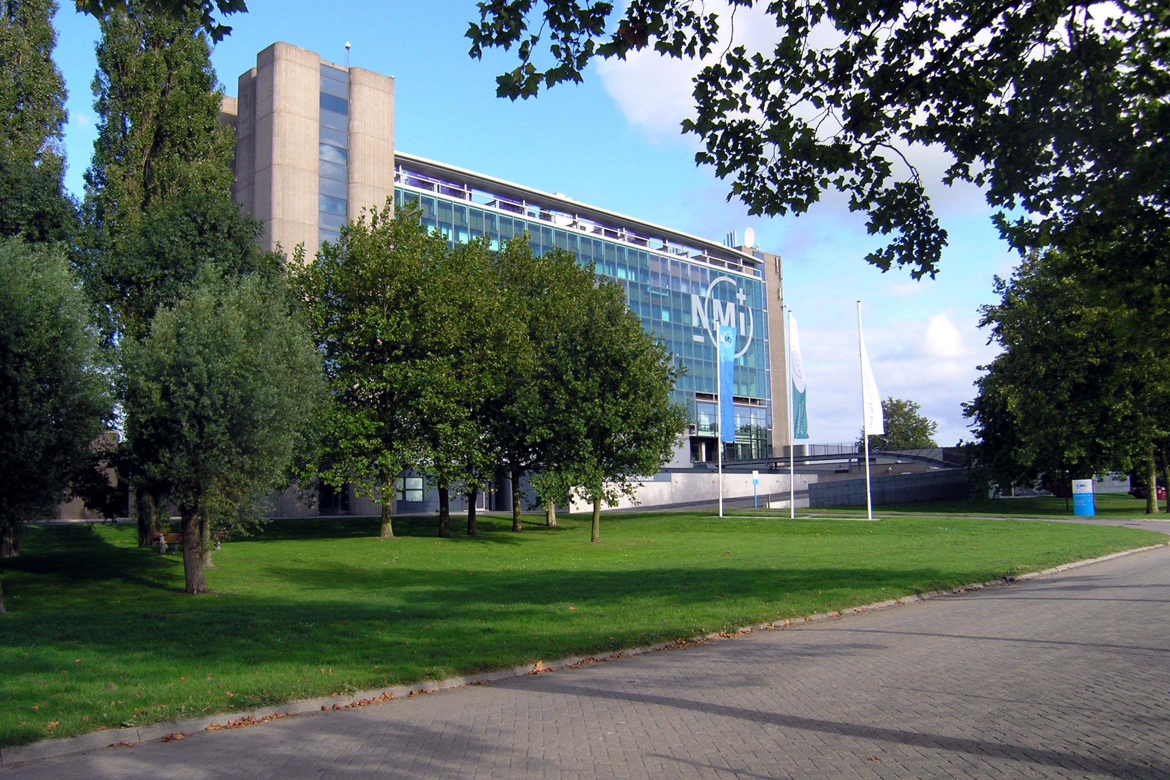 Nederlands Meetinstituut NMi (Netherlands Metrology Institute), Delft, the Netherlands.